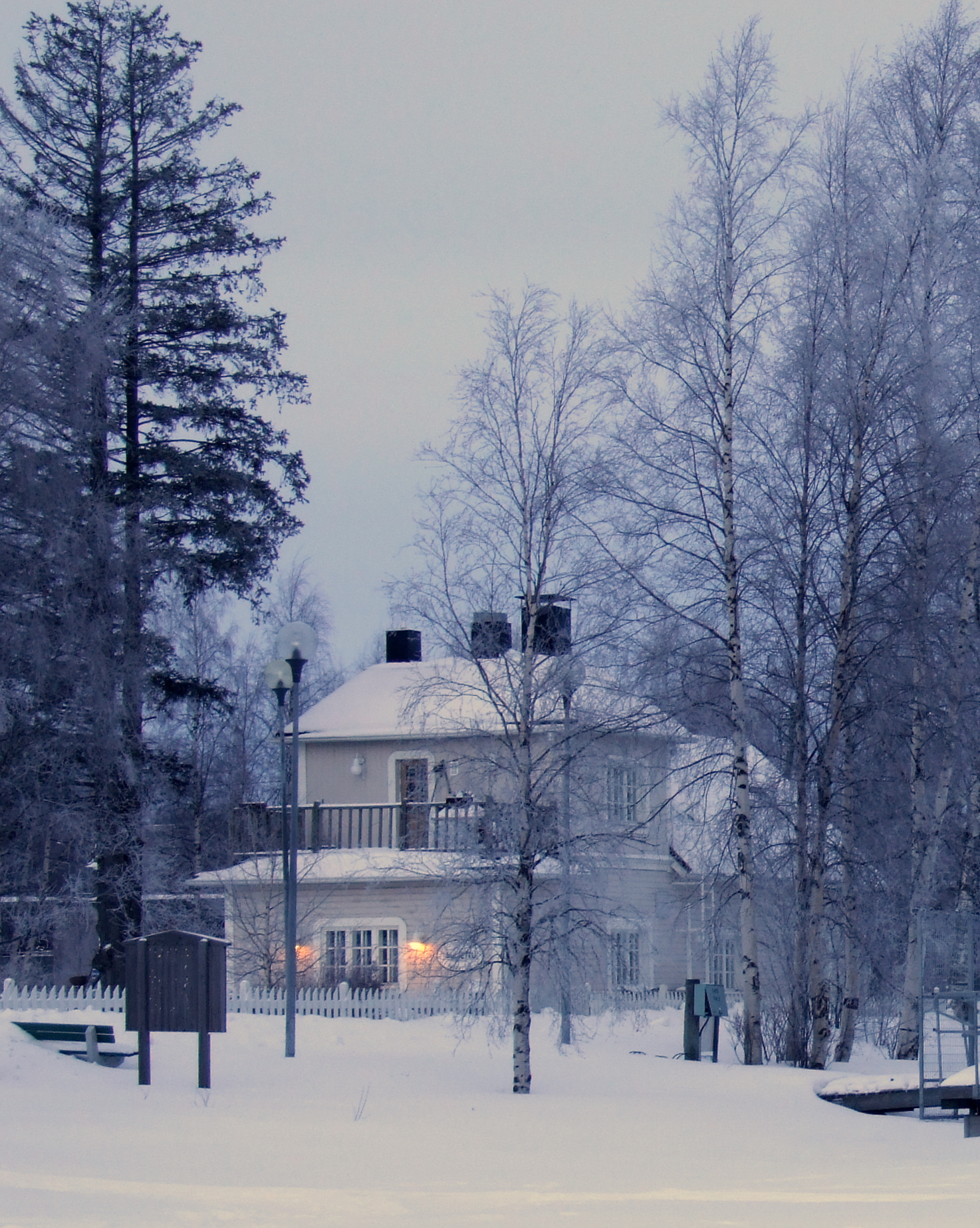 The Koivurannan kahvila is a villa café in Värttö neighbourhood in Oulu. The Art Nouveau villa was built in 1920.